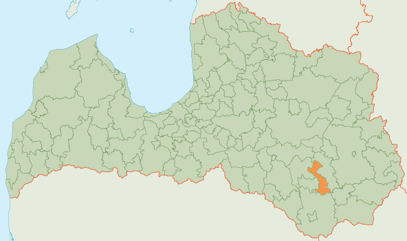 Map of Preiļi municipality, Latvia